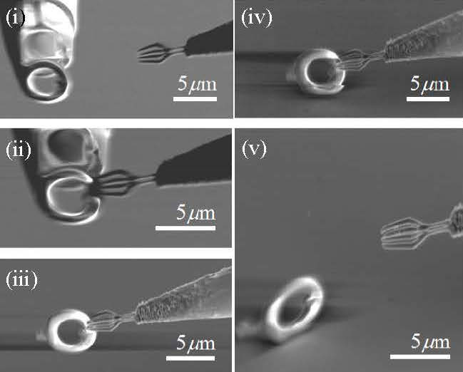 Manipulation of a glass ring: (i) approaching the ring while applying 50 V to the nanomanipulator. The ring is grabbed by switching of the voltage (ii), moved to a Si surface (iii, iv) and released (v) by applying voltage to the manipulator.